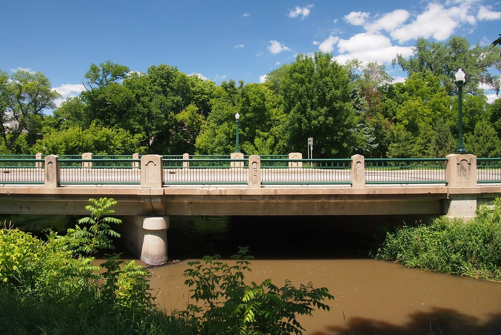 Bridge No. 5083 carrying Minnesota State Highway 19 over the Redwood River, Marshall, Minnesota, USA. Viewed from the southeast.